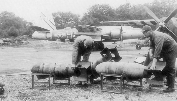 Unidentified 394th Bomb Group B-26 Marauders being loaded with bombs at RAF Holmsley South, 1944 Source: Freeman, Roger A., UK Airfields of the Ninth: Then and Now, 1994 - Photo attributed to United States Army Air Force